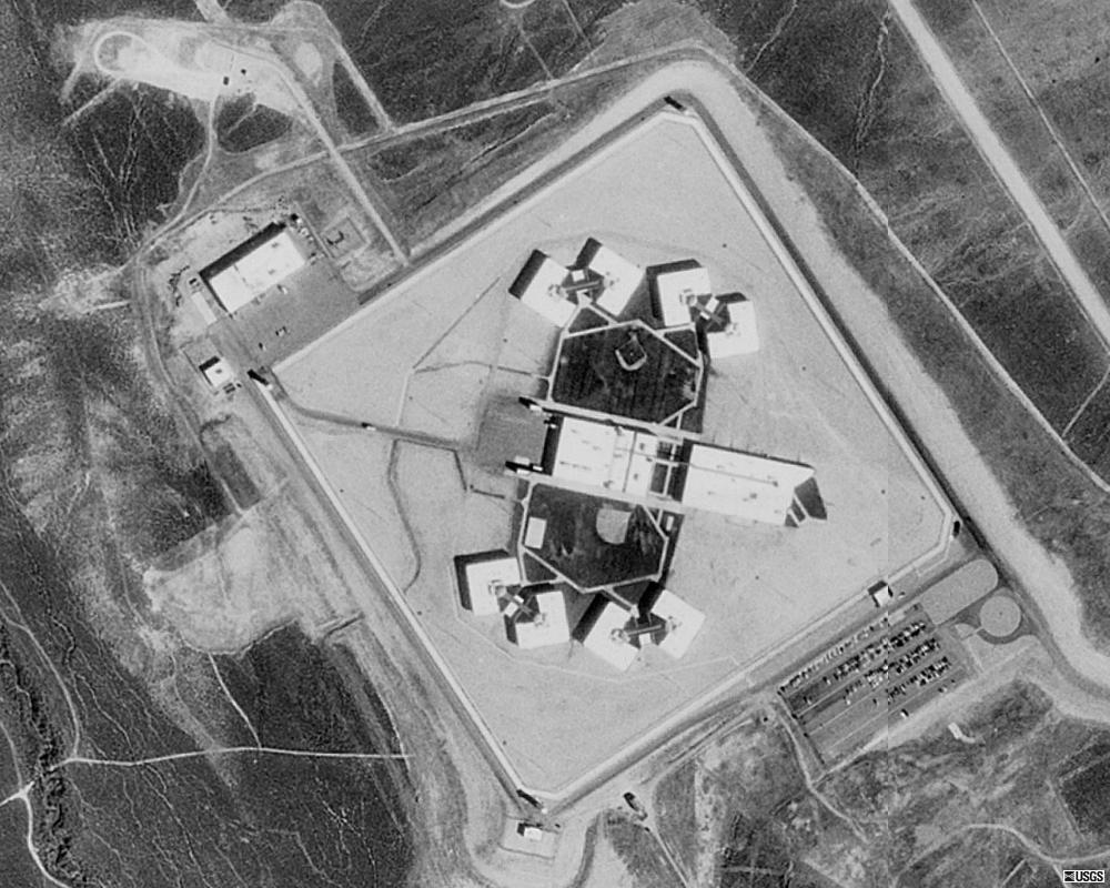 USGS orthophoto of Ely State Prison near Ely, Nevada, United States